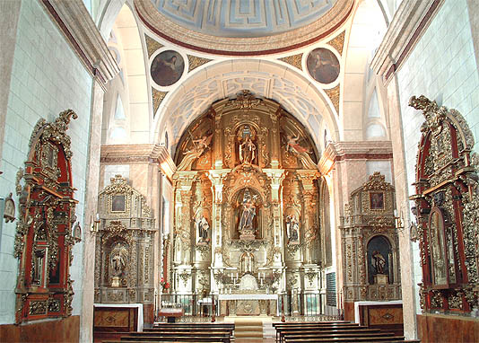 Altarpiece of the church of the Carmelitas of St Joseph of Guadalajara, Spain.